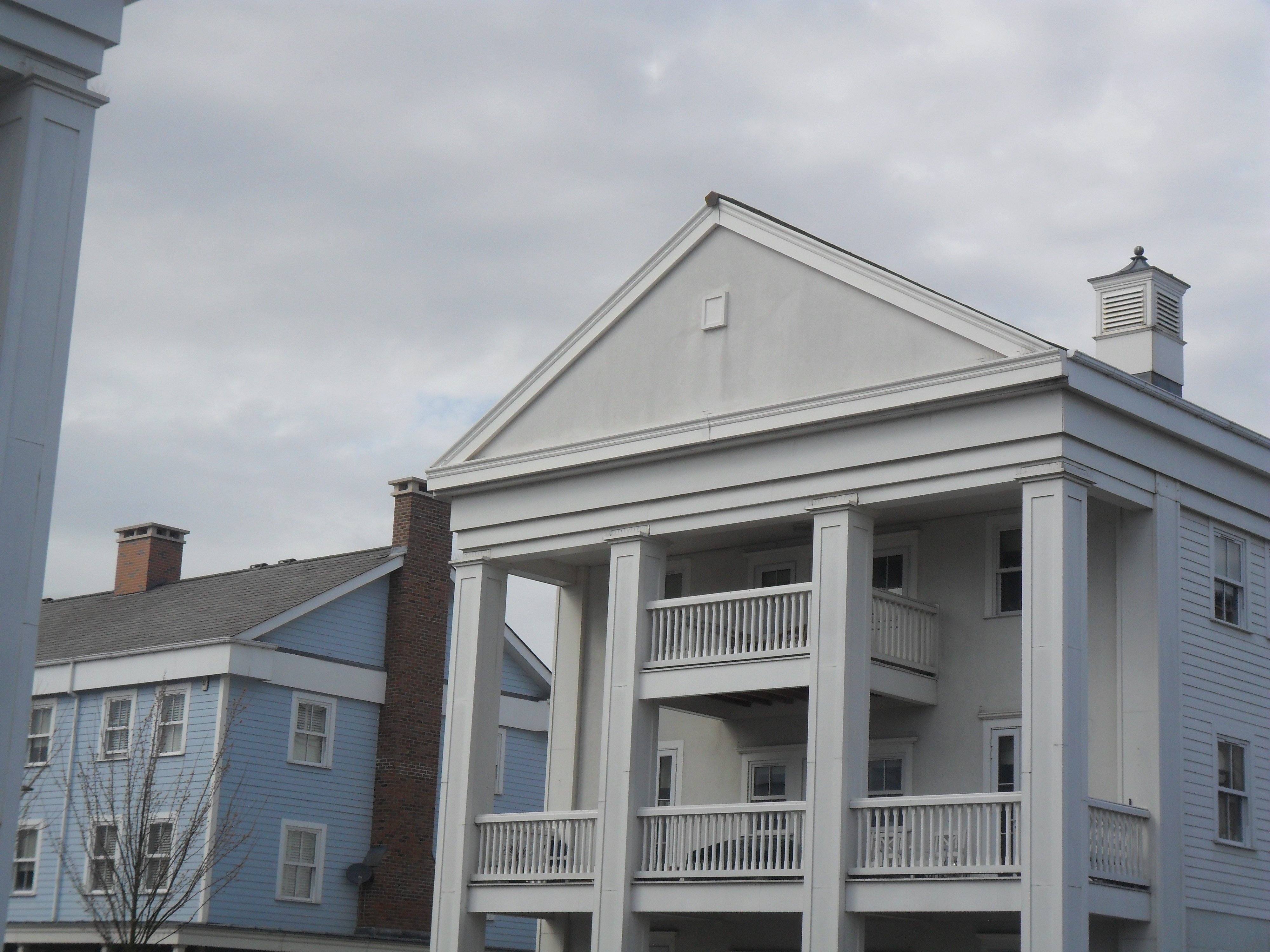 One of many apartment buildings and houses in a vast, upmarket housing development in the London Borough of Sutton of mainly New England architectural design. Set in a large newly-created park. There's nothing else quite like it - multi-award winning.